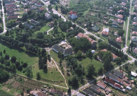 Dunaszentgyörgy, Hungary, aerialphotography